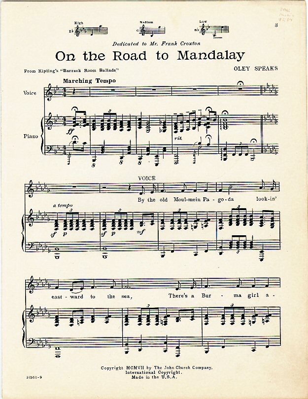 First sheet of Oley Speaks's setting of "On the Road to Mandalay", John Church Company, USA, 1907. Words from Rudyard Kipling's poem "Mandalay", in Barrack Room Ballads